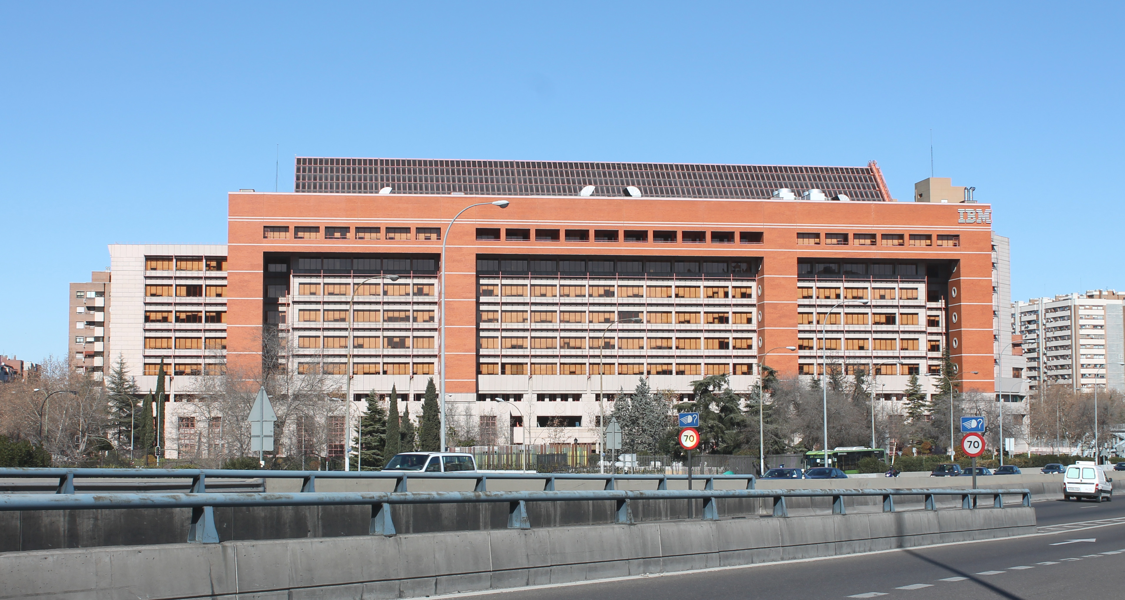 View of IBM offices in Madrid (Spain).